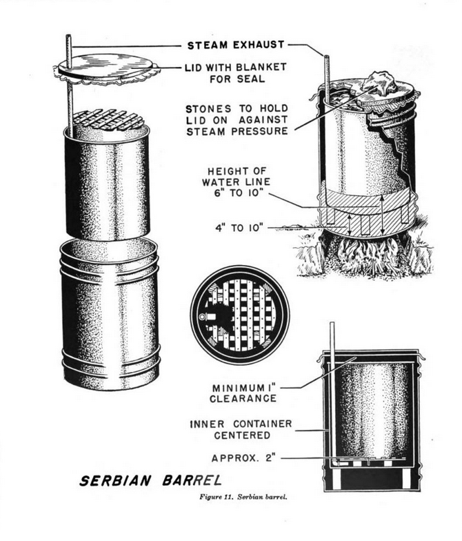 Diagram of Serbian barrel disinfection device, which sterilizes clothes using moist heat disinfection